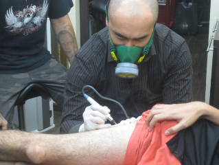 Marc Pinto from Perth branding a customer in Singapore.